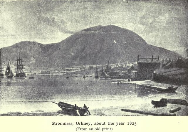 Picture of Stromness, Orkney, made in 1825